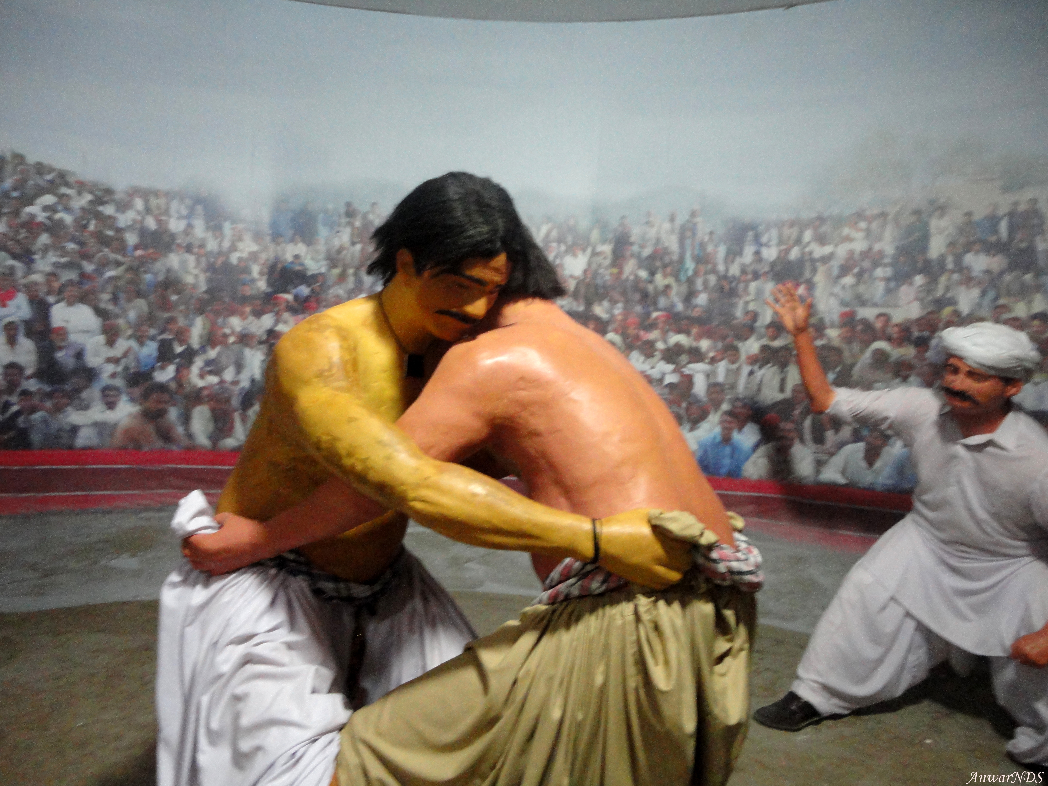 Institute of Sindhology Jamshoro